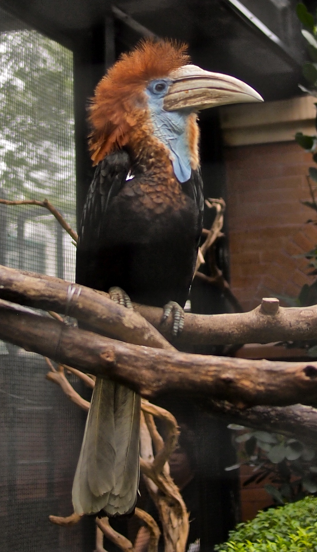 A Yellow-casqued Hornbill at Hong Kong Zoological and Botanical Gardens, Hong Kong.